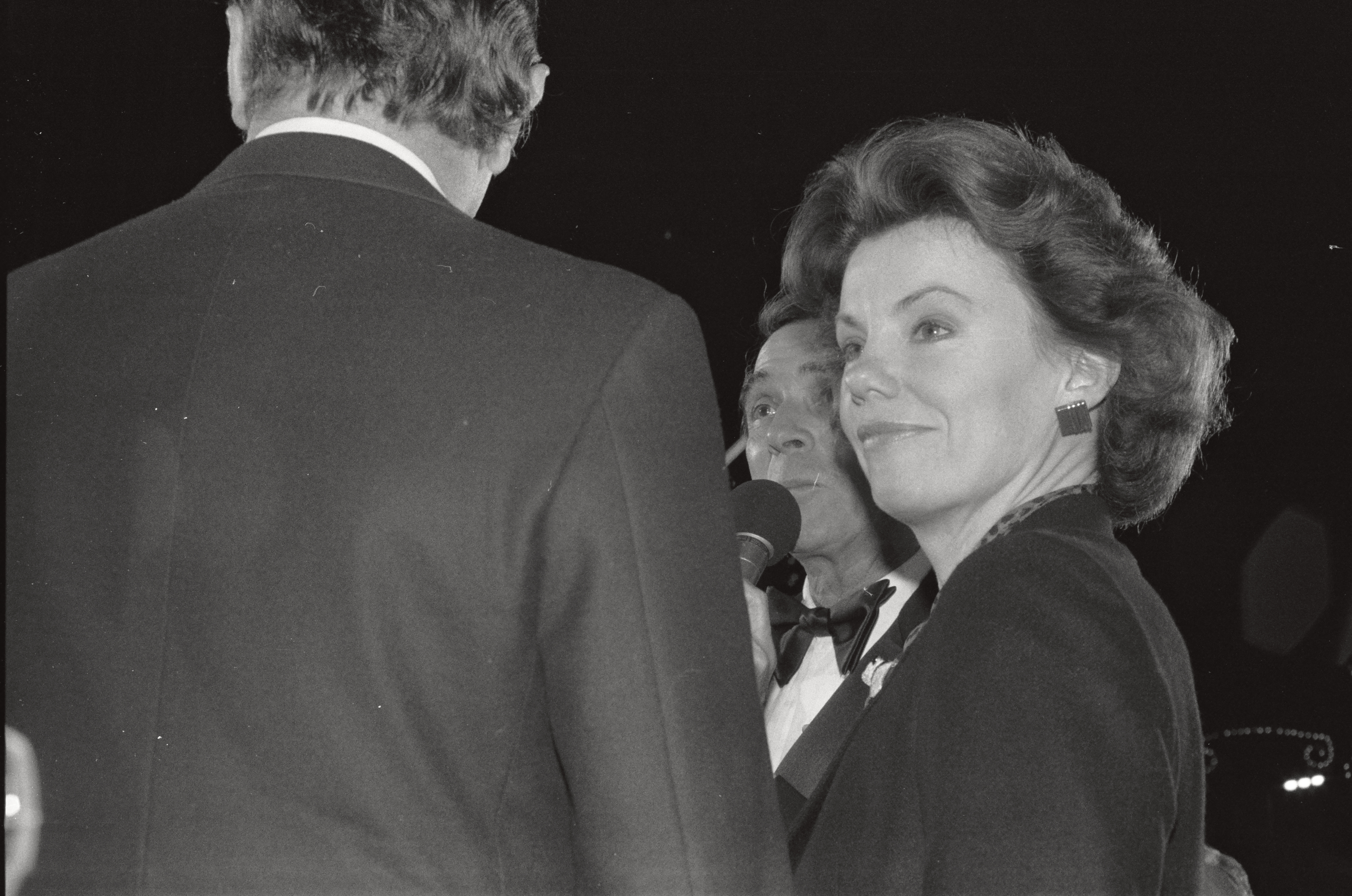 Photo taken at the premiere of the movie SEEMS LIKE OLD TIMES 12/10/80 - Permission granted to copy, publish or post but please credit "photo by Alan Light" if you can. Thanks.